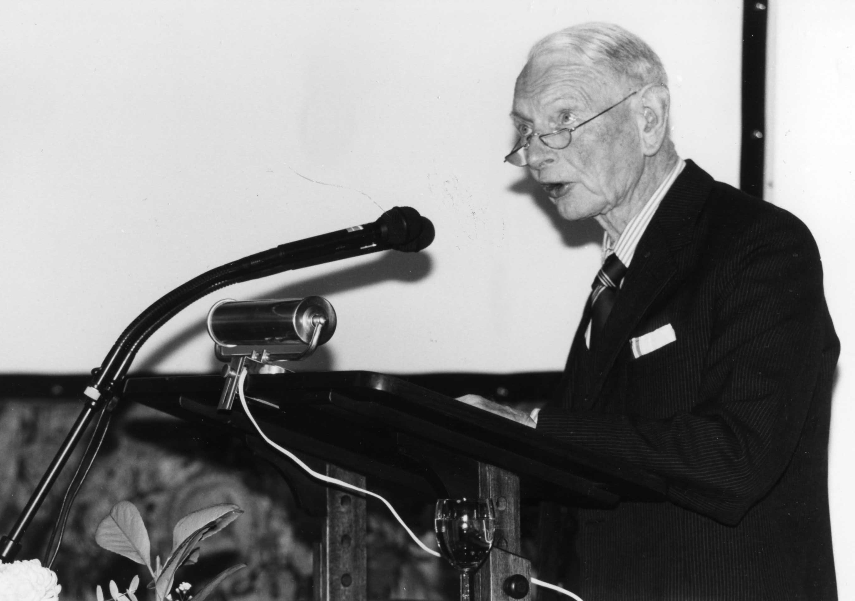 John Grahame Douglas Clark, acceptance speech Erasmus Prize 1990 (the Netherlands). Photograph: Courtesy of the Praemium Erasmianum Foundation.